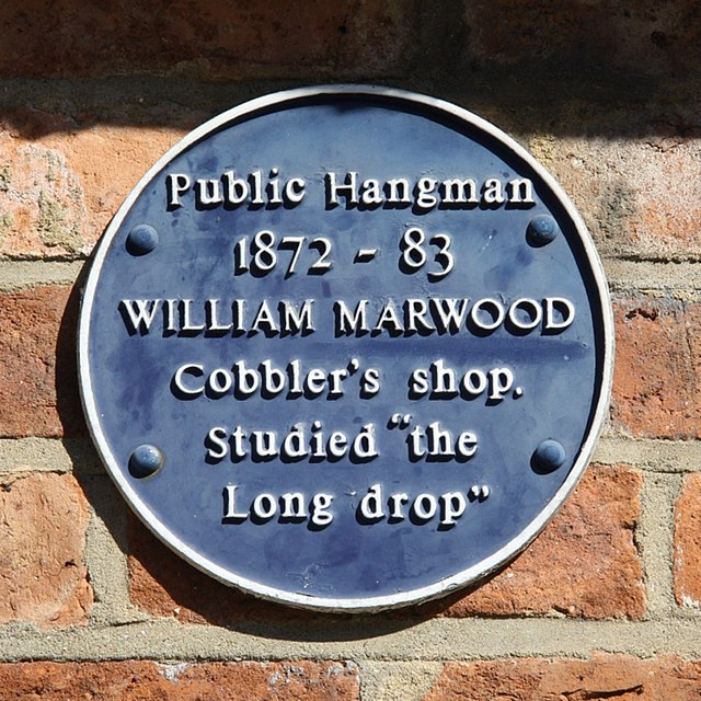 William Marwood blue plaque. Blue plaque on William Marwood's cobblers shop on Church Street 1303260